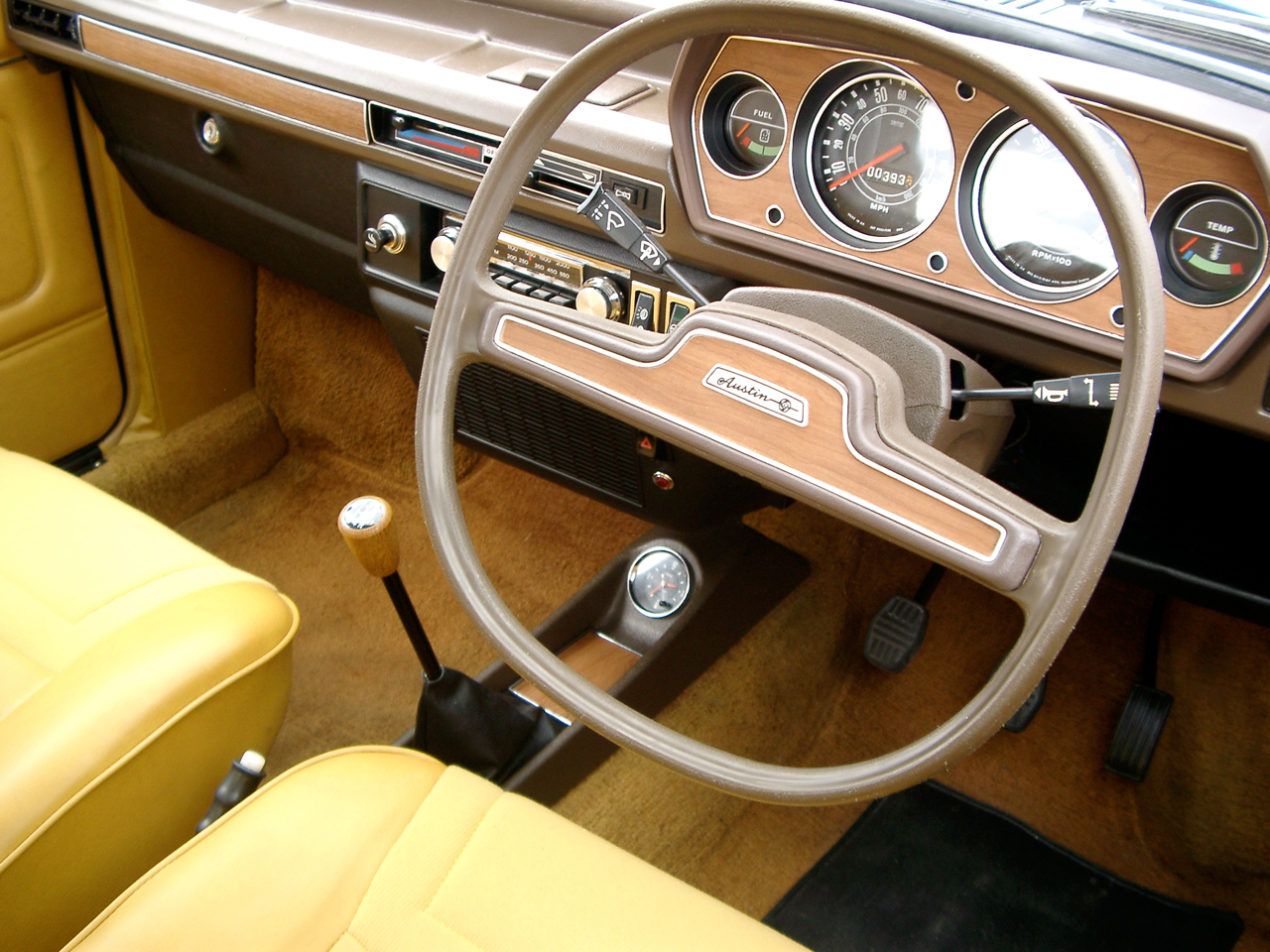 Dashboard of an Austin Allegro featuring the Quartic steering wheel. – The interior of an early Austin Allegro 1750. Interior in Autumn leaf vinyl.